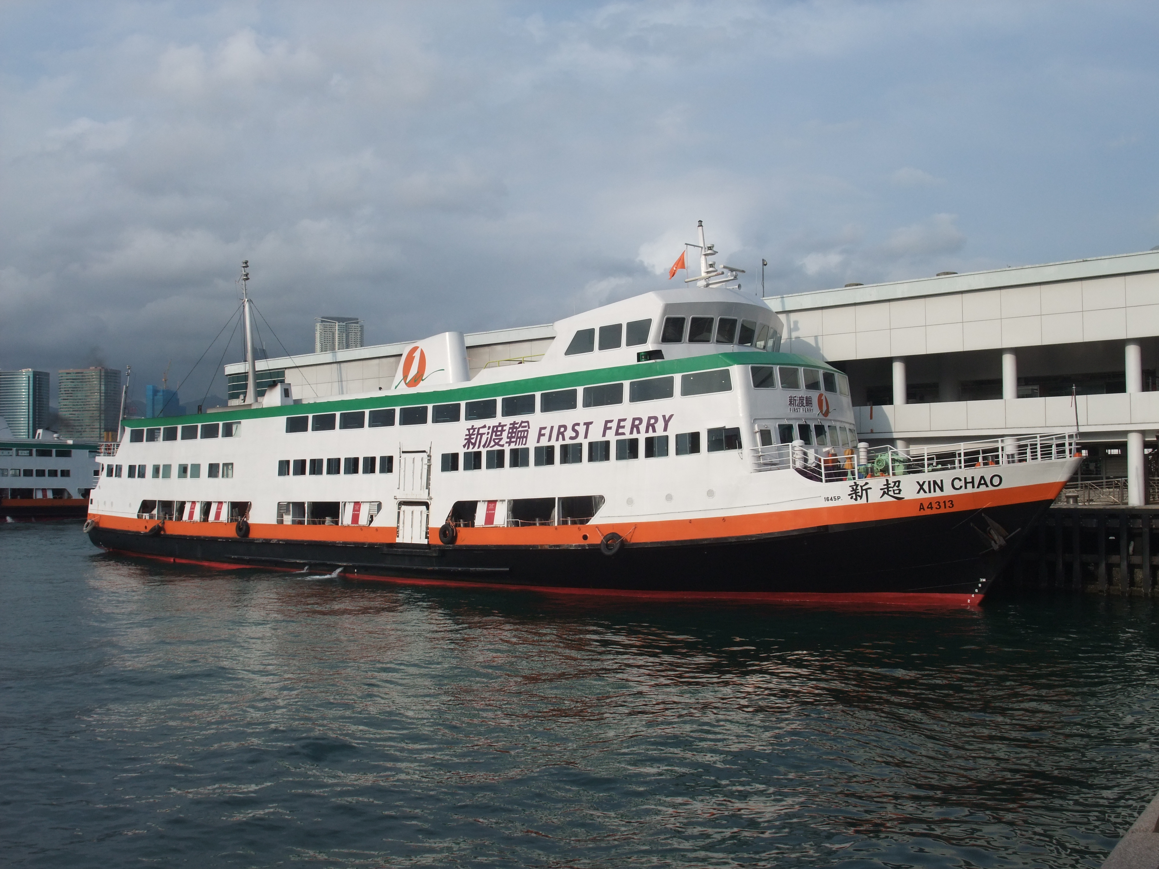 Photo of New Ferry Xin Chao